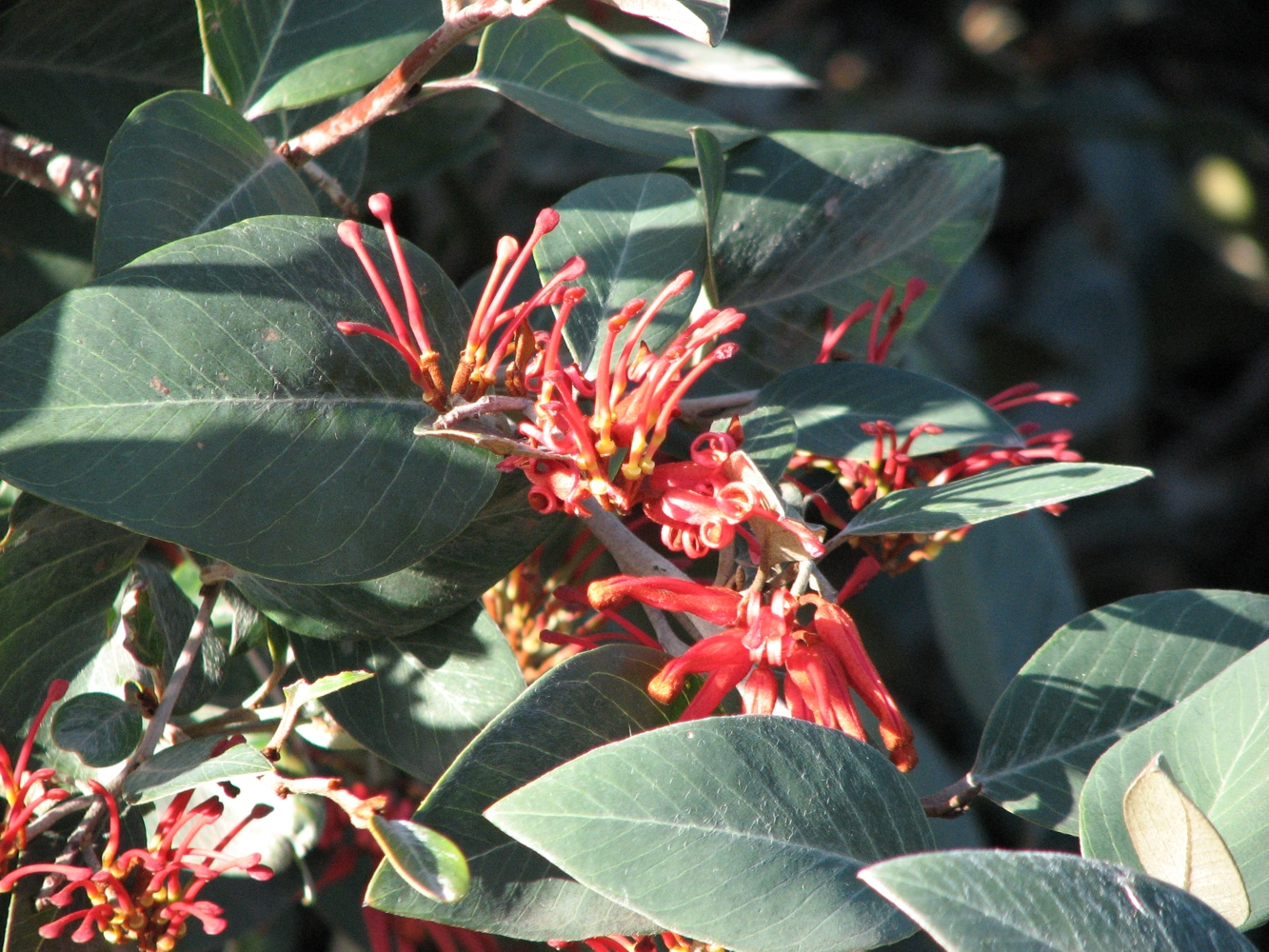 Grevillea sp. Mt Burrowa [cultivated, labelled as Grevillea aff. oxyantha (Mt Burrowa)] Royal Botanic Gardens Melbourne Australia